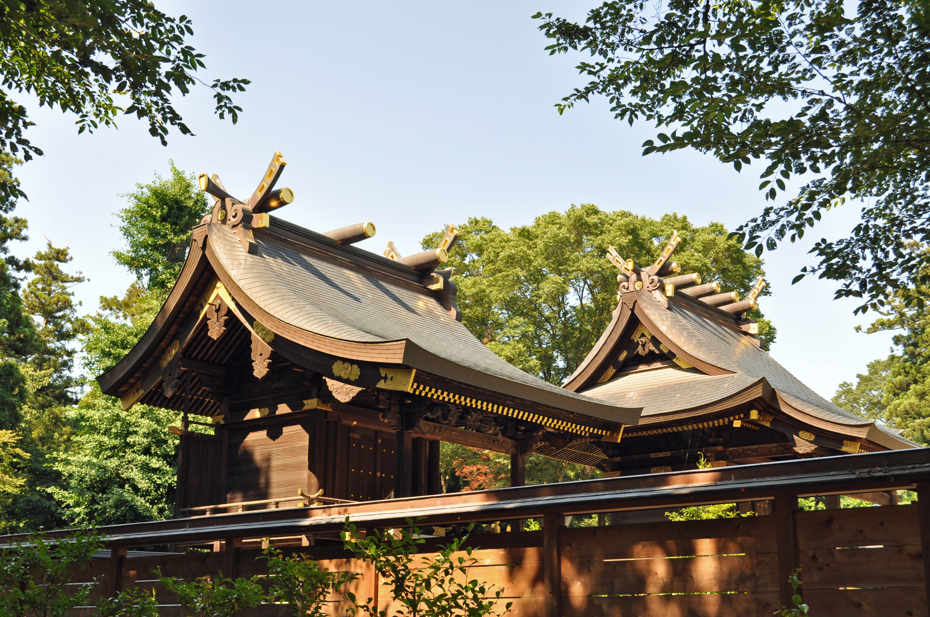 Main holl of a Washimiya shrine